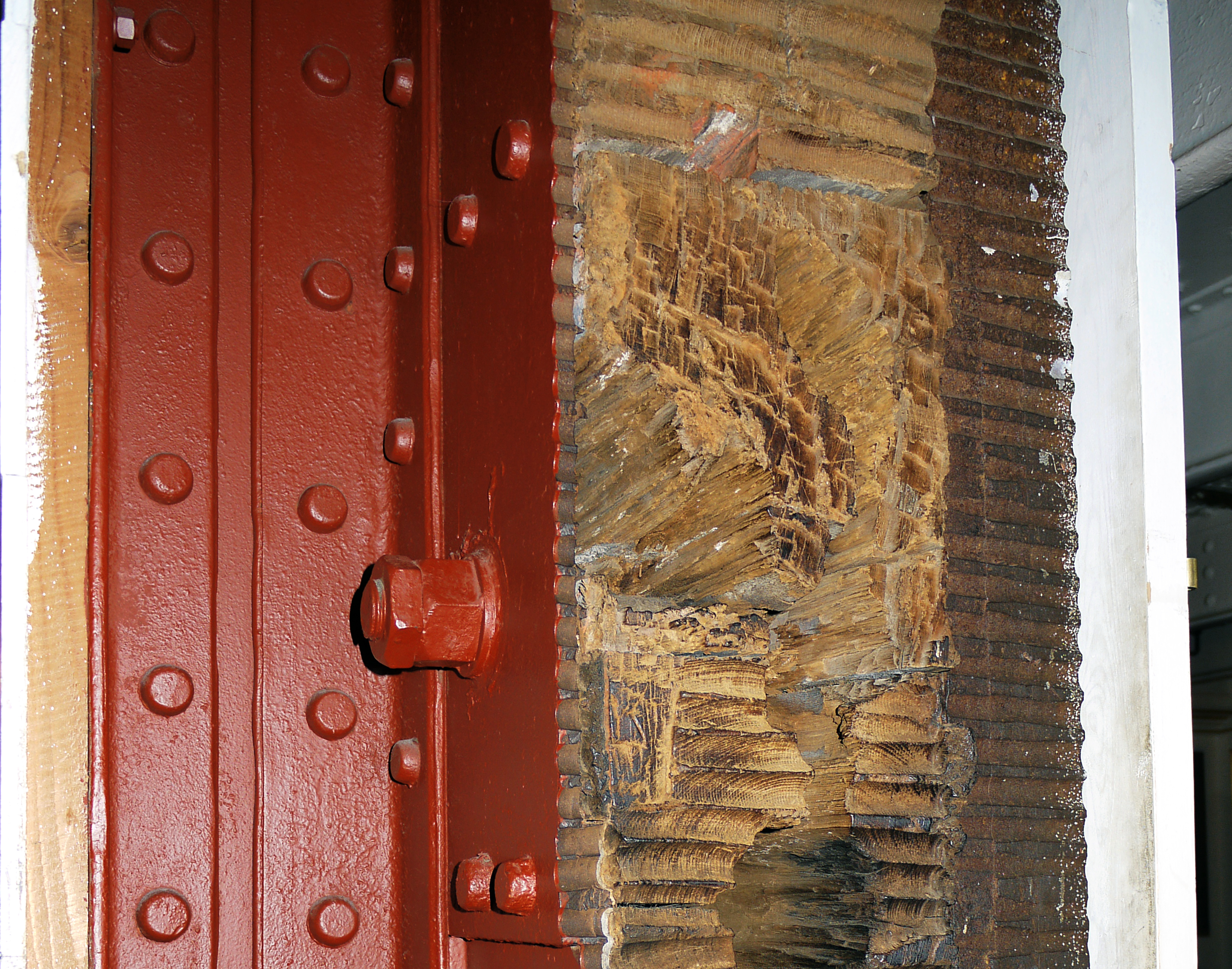 Photo of the bulkhead armour on HMS Warrior(1860)